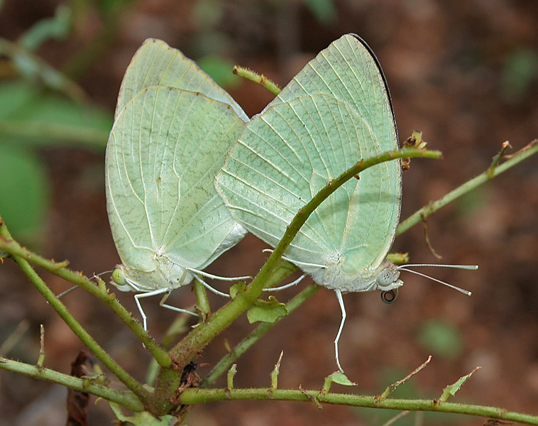 Mottled Emigrant Catopsilia pyranthe in Hyderabad , India.